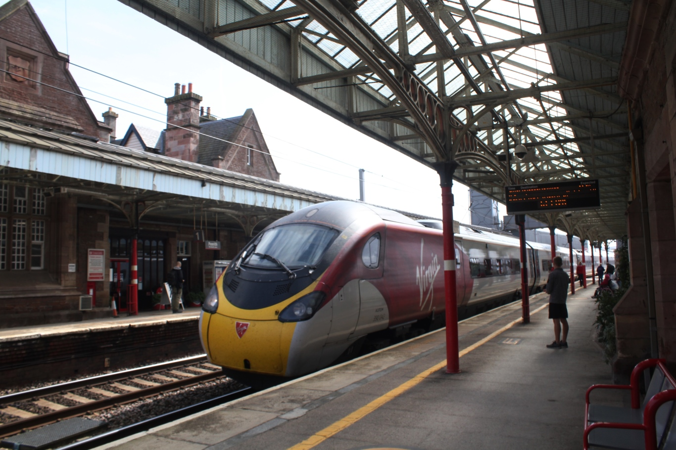 Virgin 'Pendolino' 390042 arrives at Penrith with a very late running service from London to Glasgow.